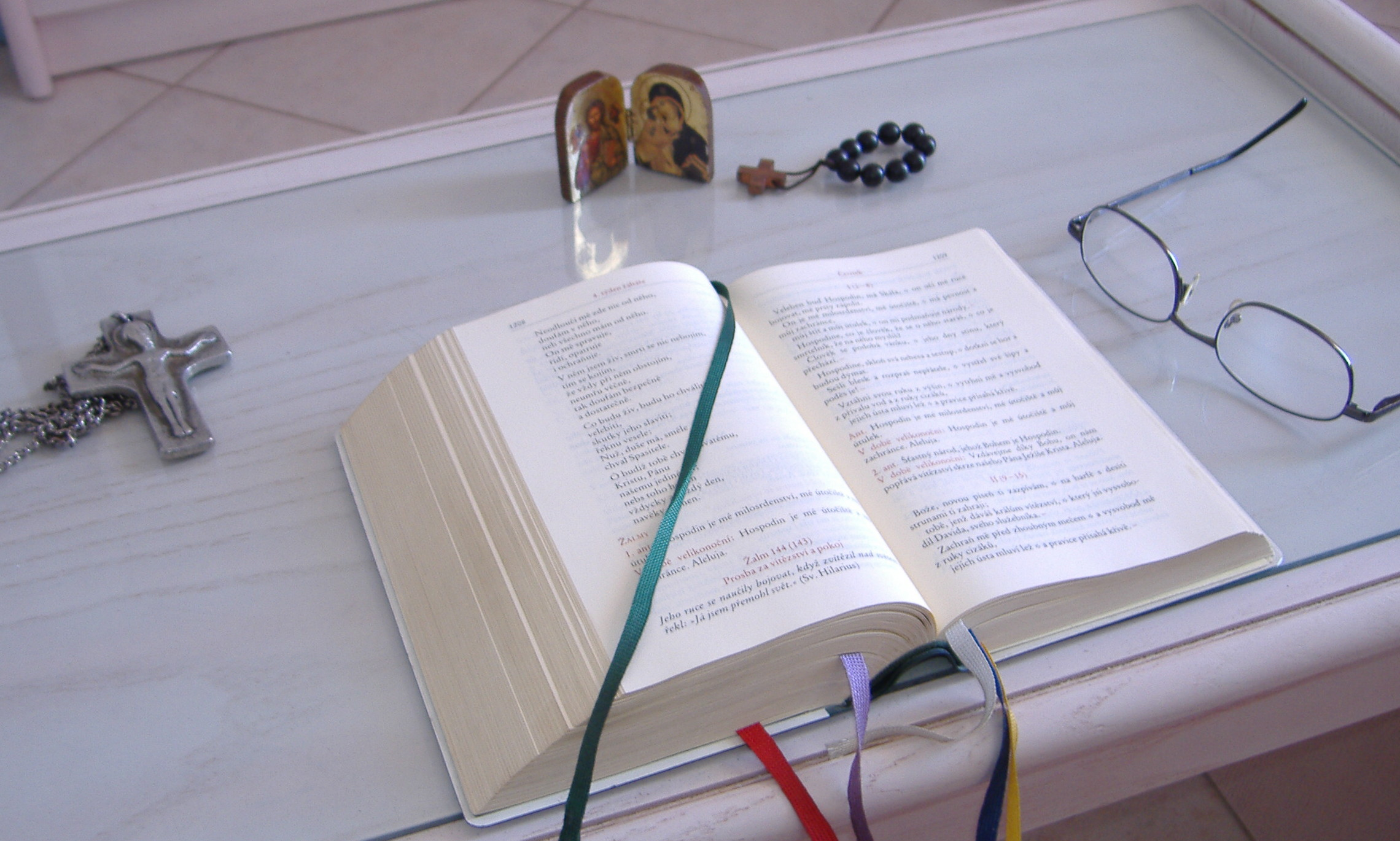 Psalter